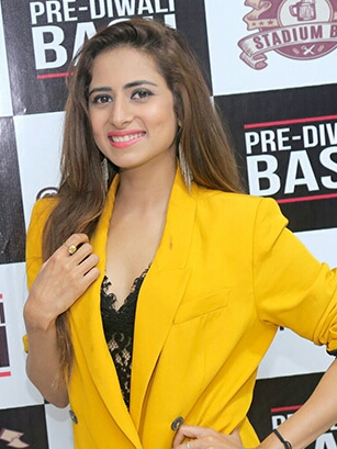 Sargun Mehta at a pre-Diwali party.